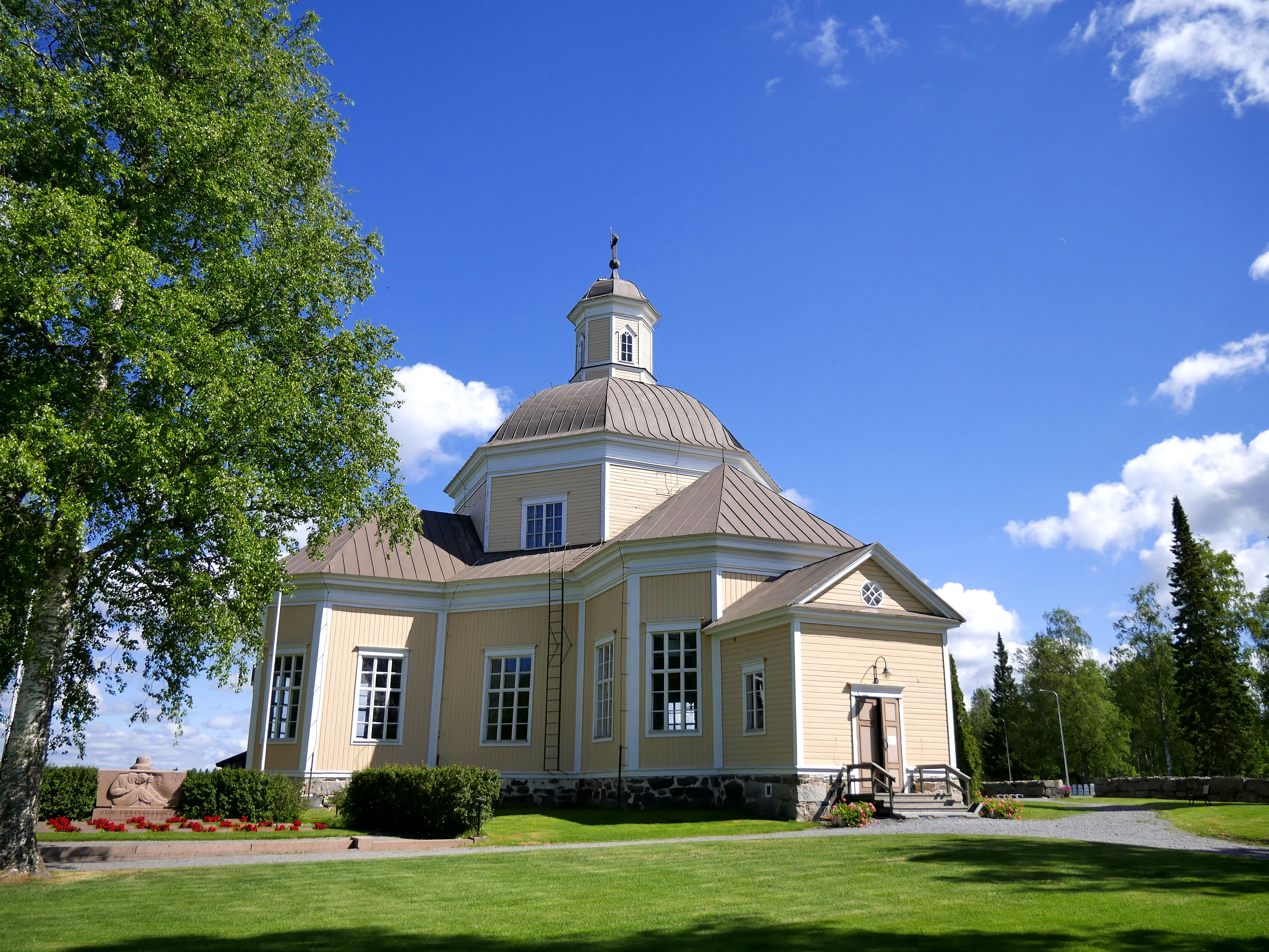 Nedervetil Church, Finland.